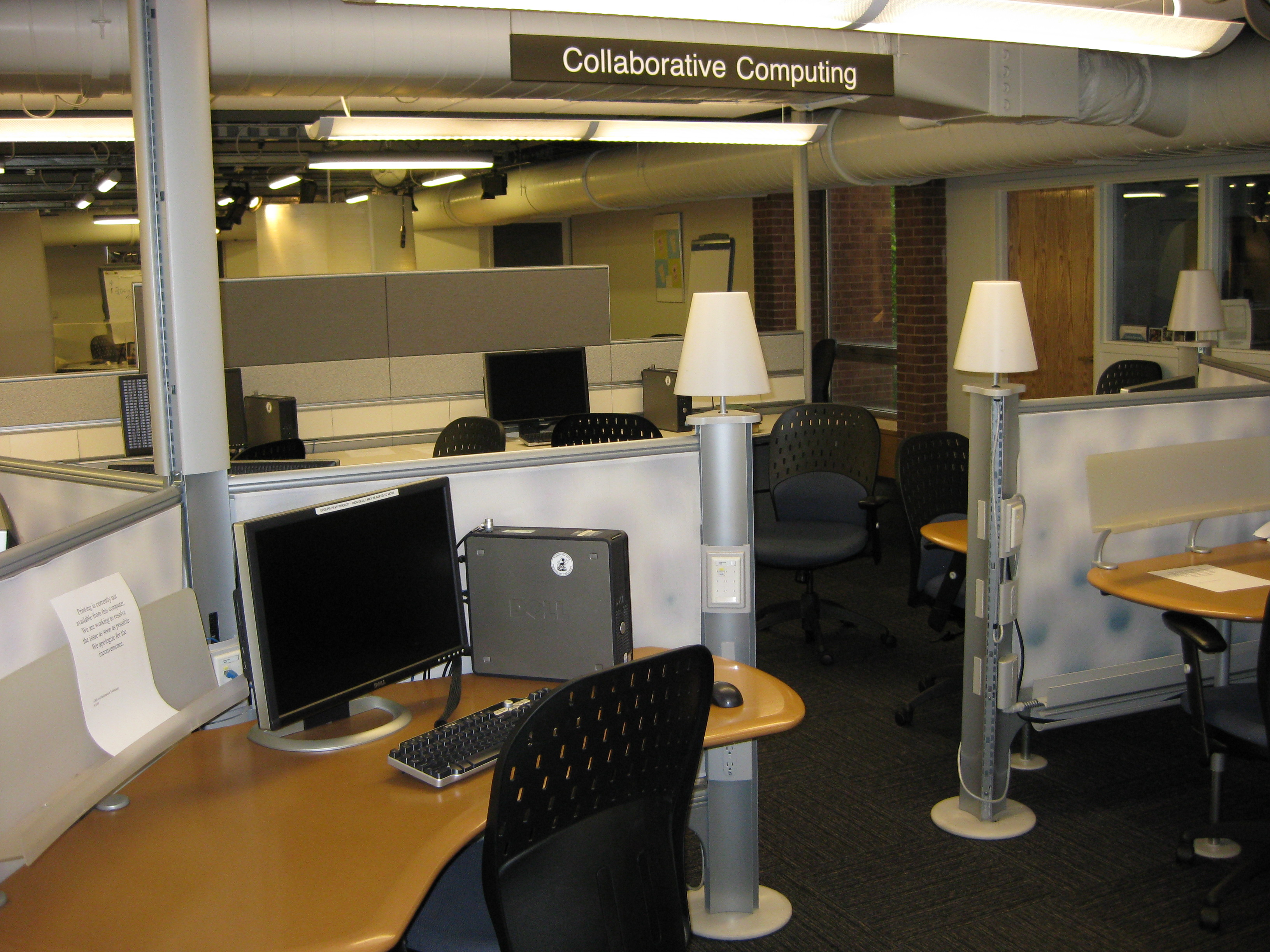 Georgia Tech Library - East Commons Collaborative Computing desks